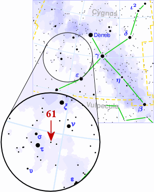 This illustration shows the location of the star 61 Cygni within the constellation of Cygnus. The source for the background map is the illustration Image:Cygnus constellation map.png by Torsten Bronger. The later is licensed under GNU Free Documentation License, Version 1.2.